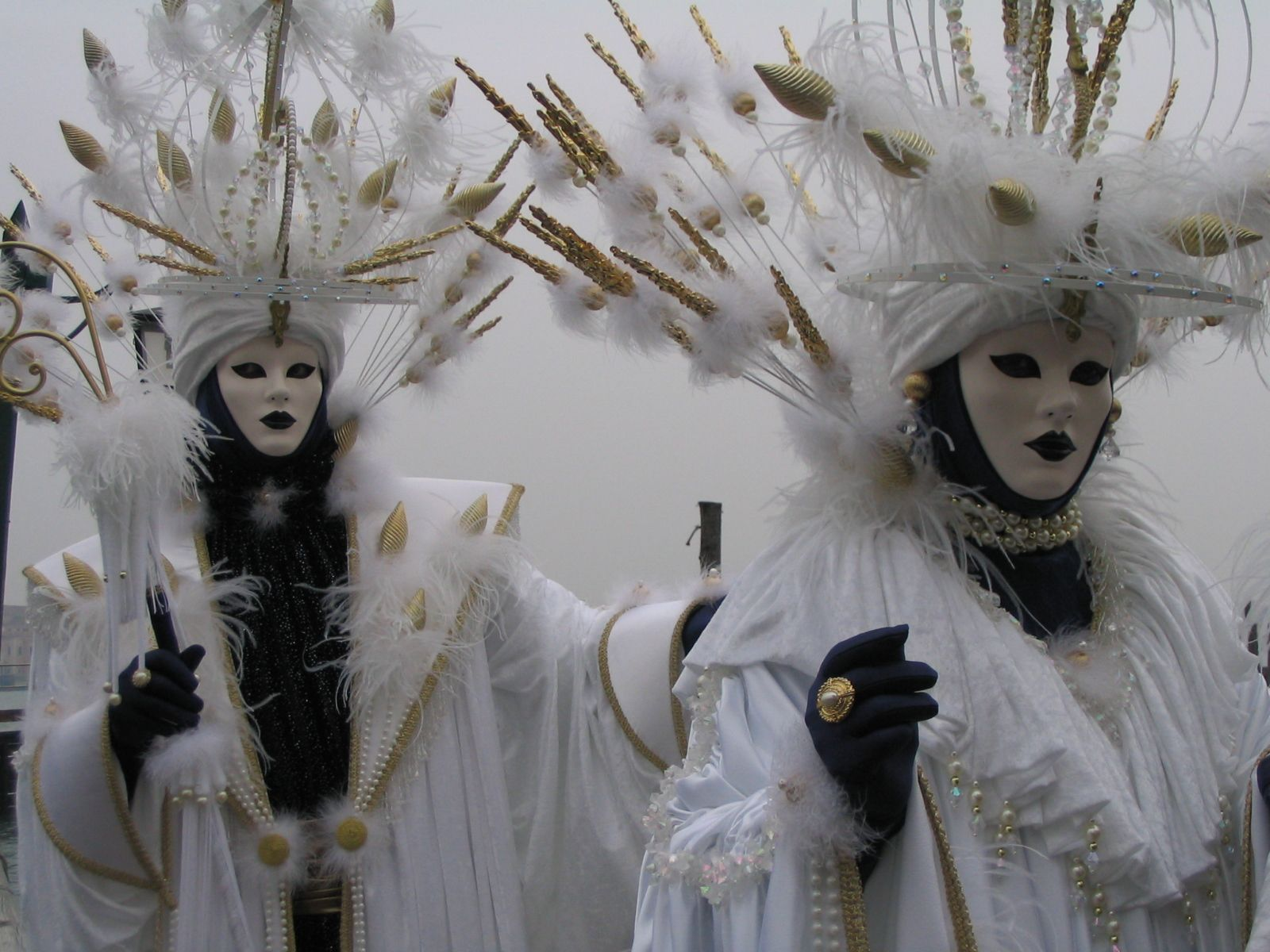 Batch Photo By wanblee =